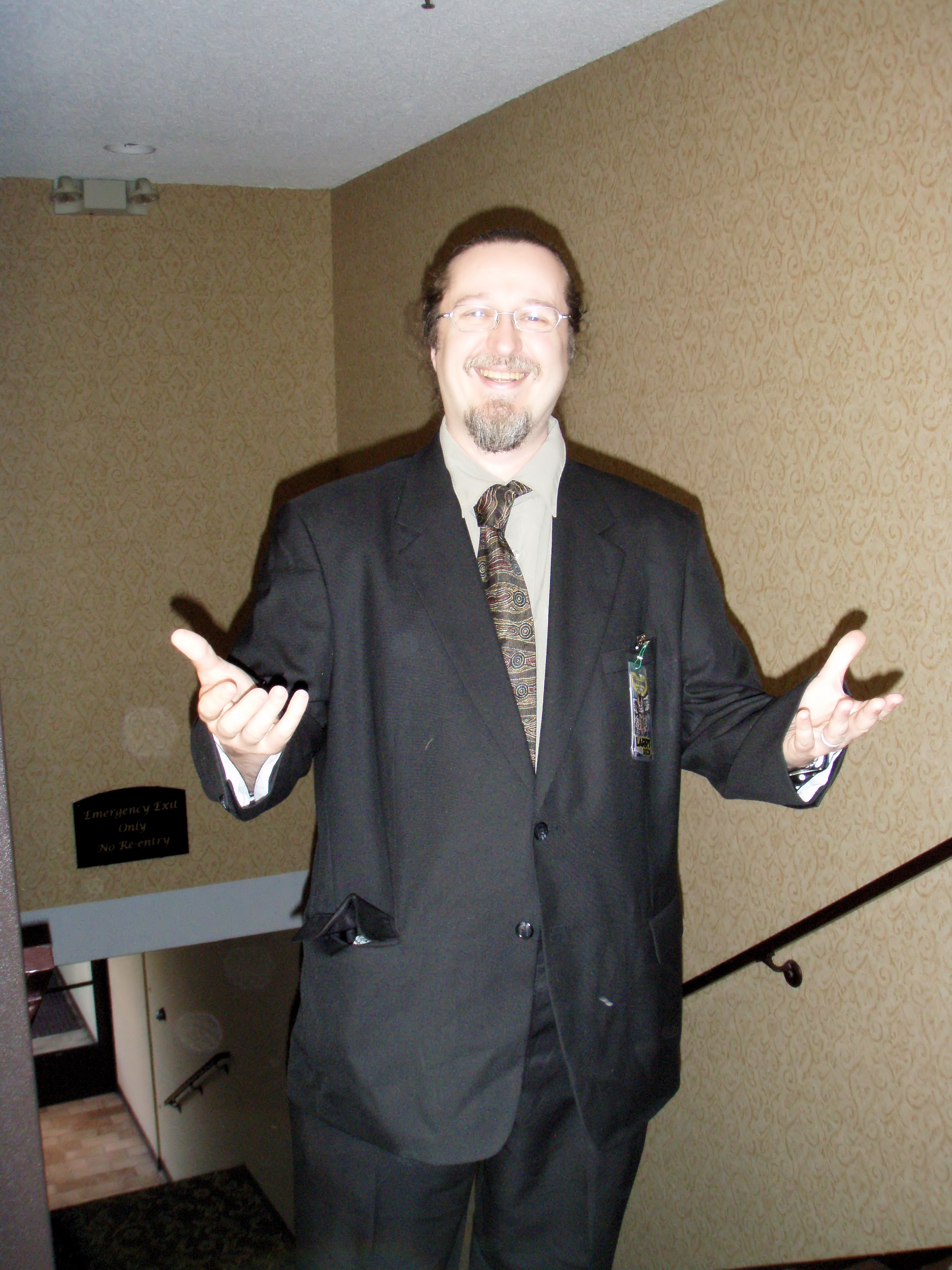 Author Larry Dixon appearing at CONvergence (convention).